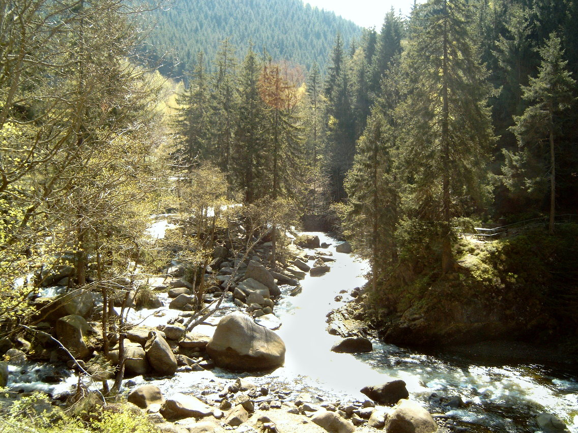 "Oker" between village "Romkerhalle" and village "Oker"